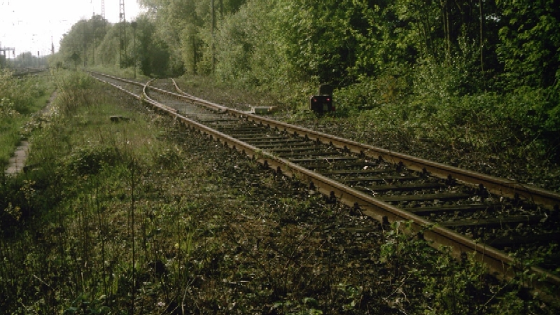 Railway junction in Düpp, Viersen, Germany.